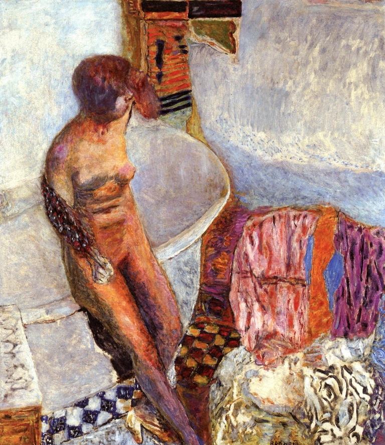 Painting by Pierre Bonnard